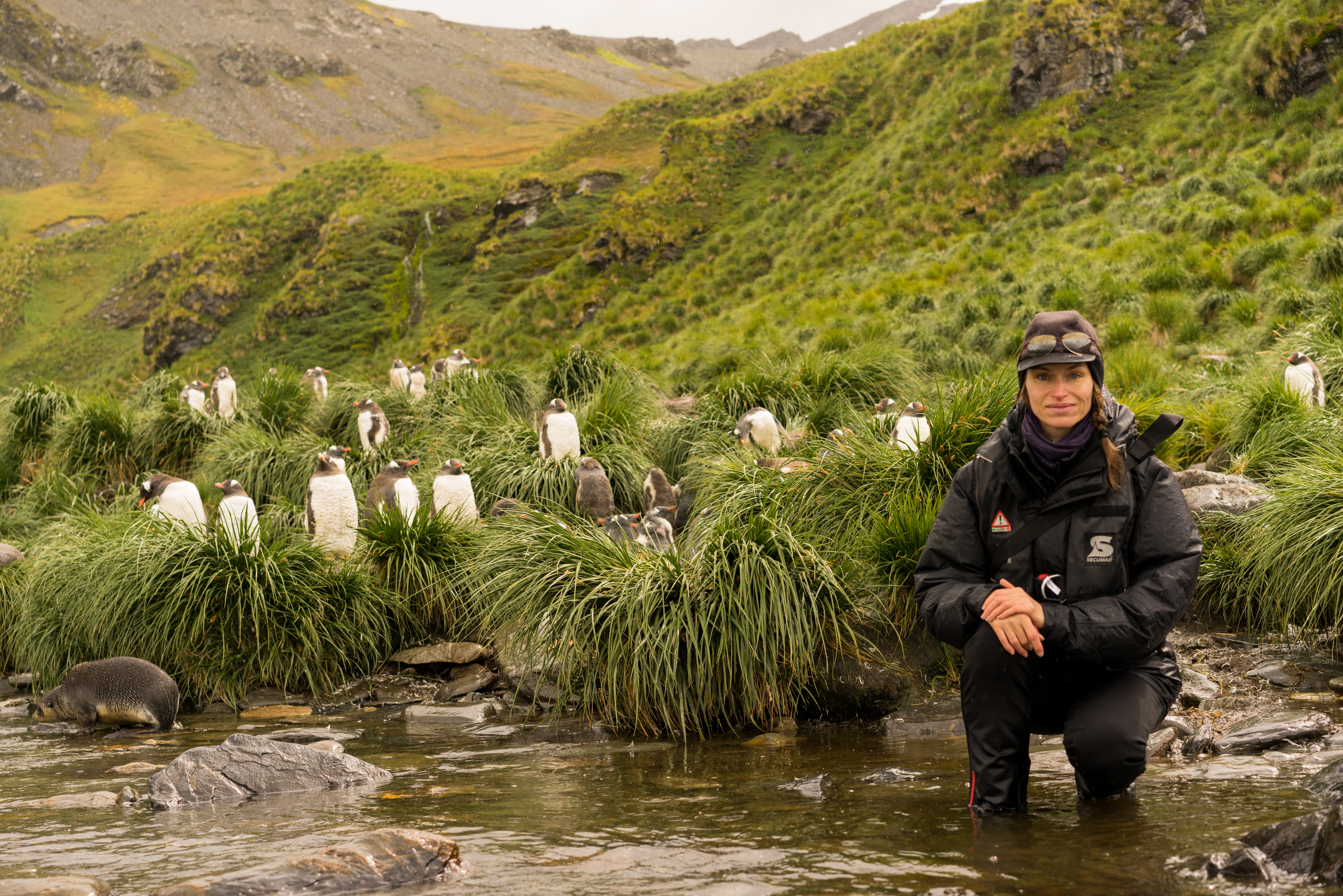 Anne de Carbuccia in Antartica